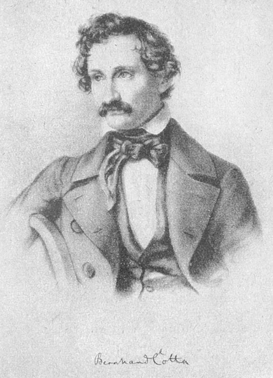 Carl Bernhard von Cotta (1808-1879), German Geologist and Cartographer